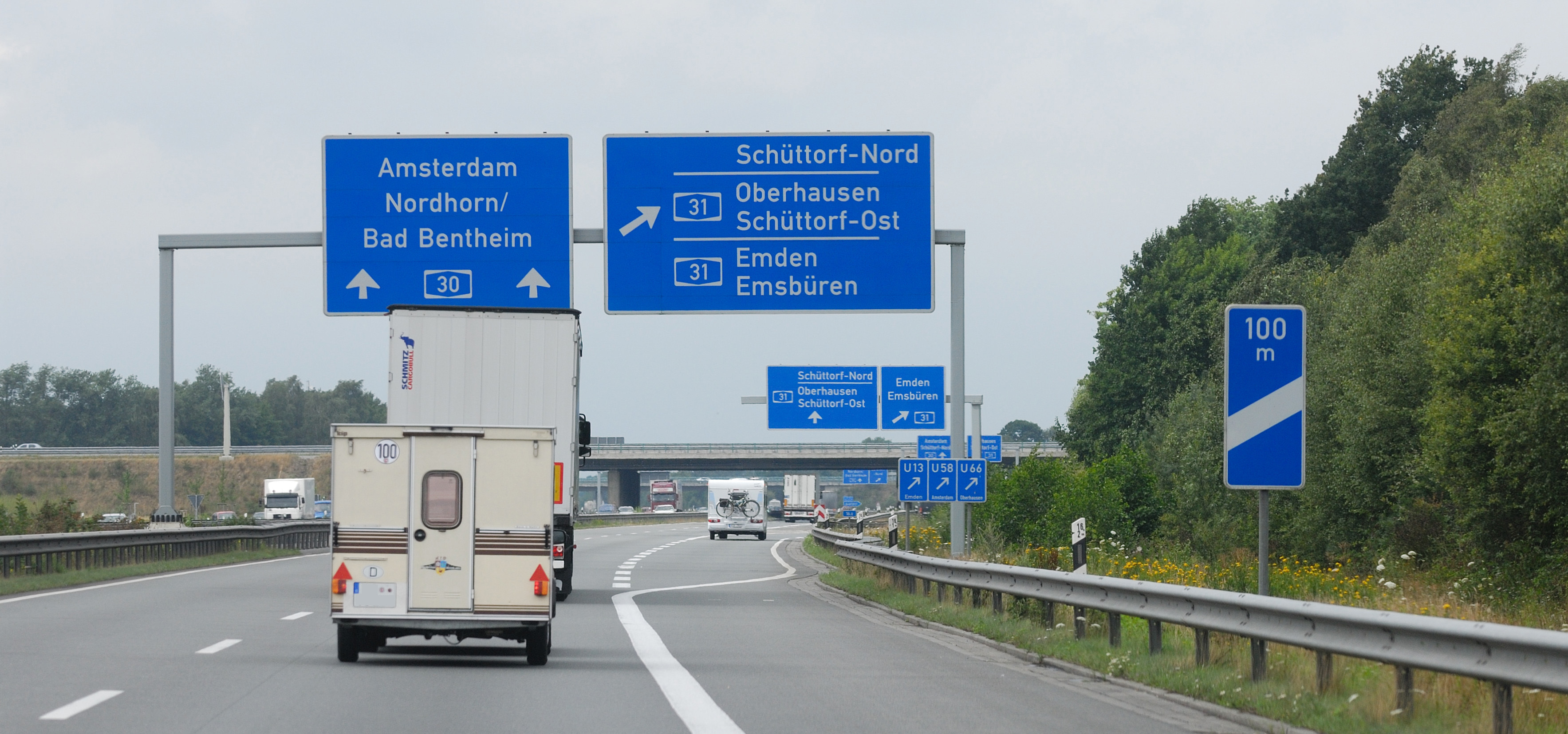 Schüttorf interchange. Road shot looking west.